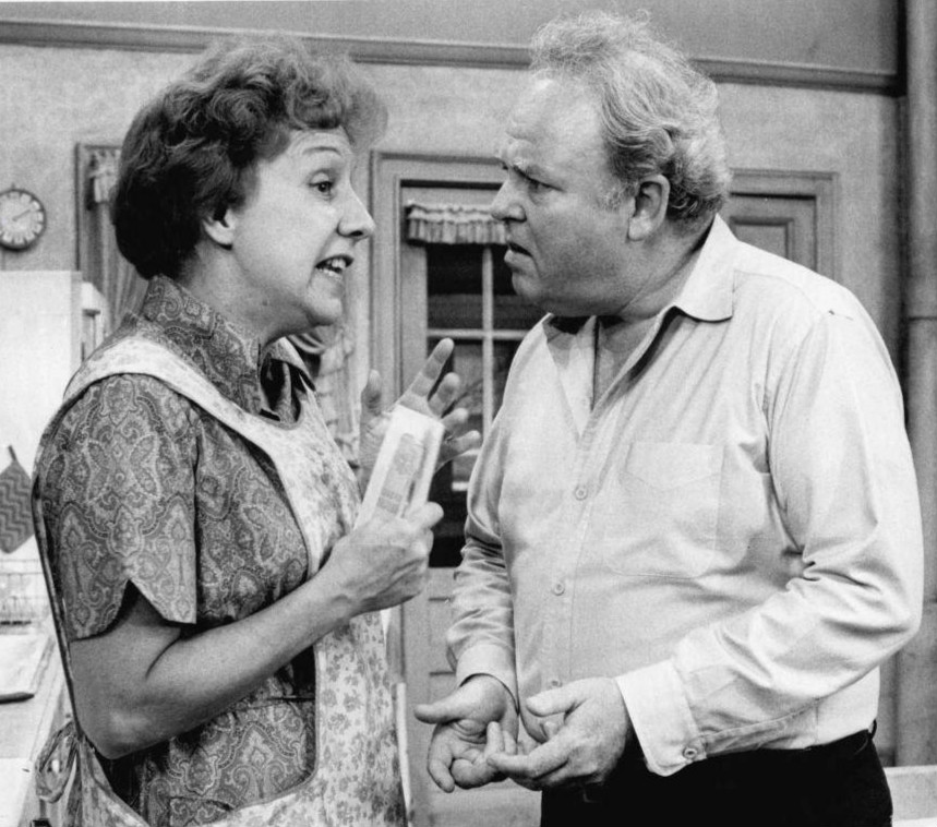 Photo of Jean Stapleton and Carroll O'Connor as Archie and Edith Bunker from the television program All In the Family.